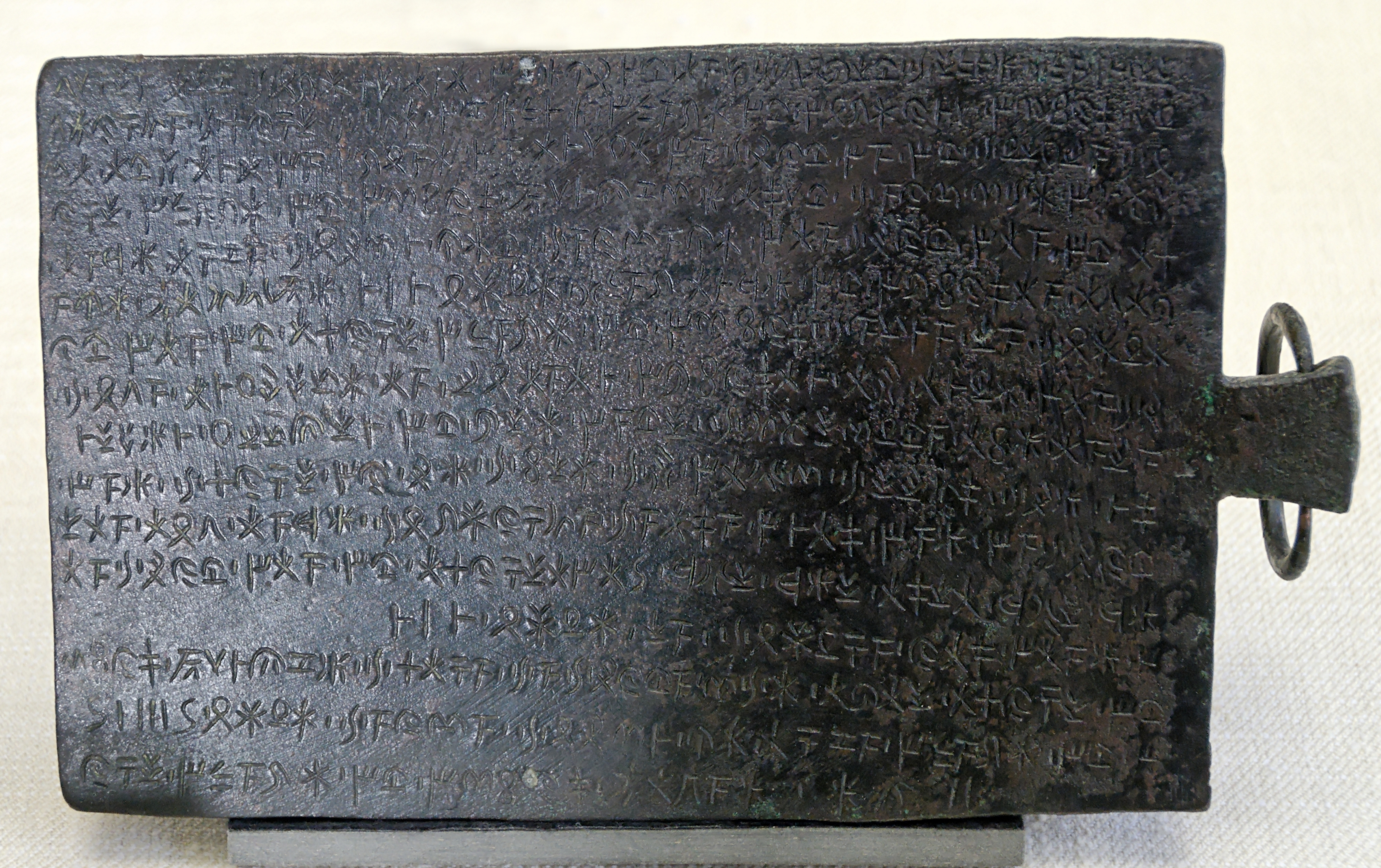 Decree from Stasicypros, king of Idalion in Cyprus, in favour of a public physician, Onesilos, and his brothers: the king and the city will pay them medical fees for the treatment of the wounded after the siege of Idalion by the Medes (478 and 470 BC). Bronze plaque engraved on both faces with a Cyprian inscription.